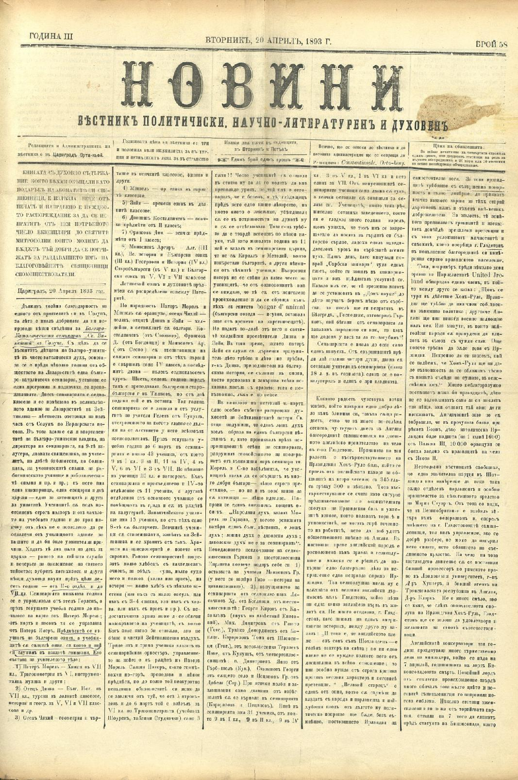 Novini with an article about the Thessaloniki Bulgarian Catholic Seminary.